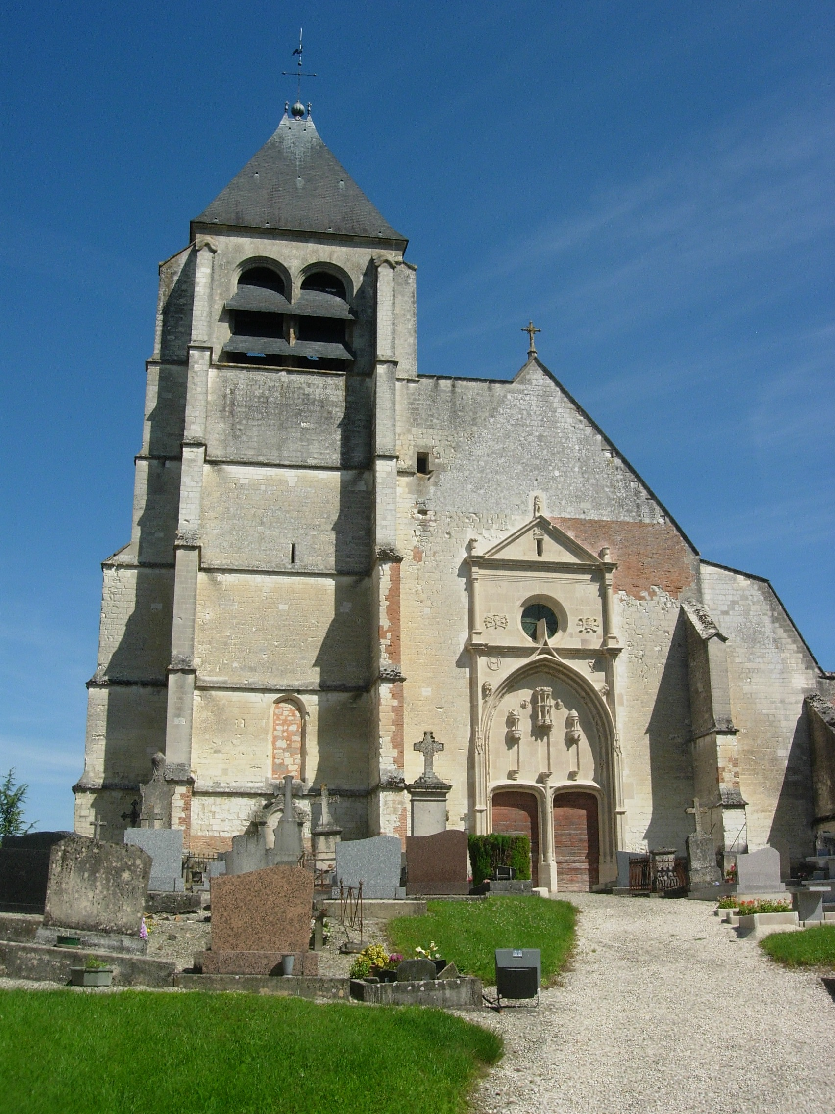 Rosnay-l'Hôpital : église